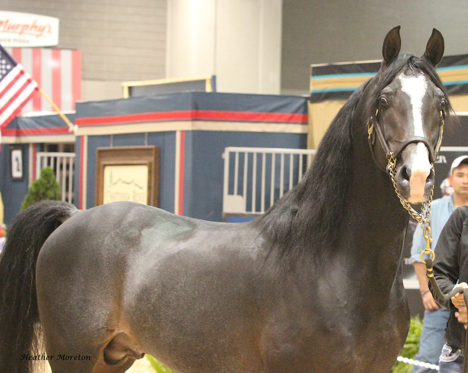 Hucks Connection V at the 2012 Arabian Celebration